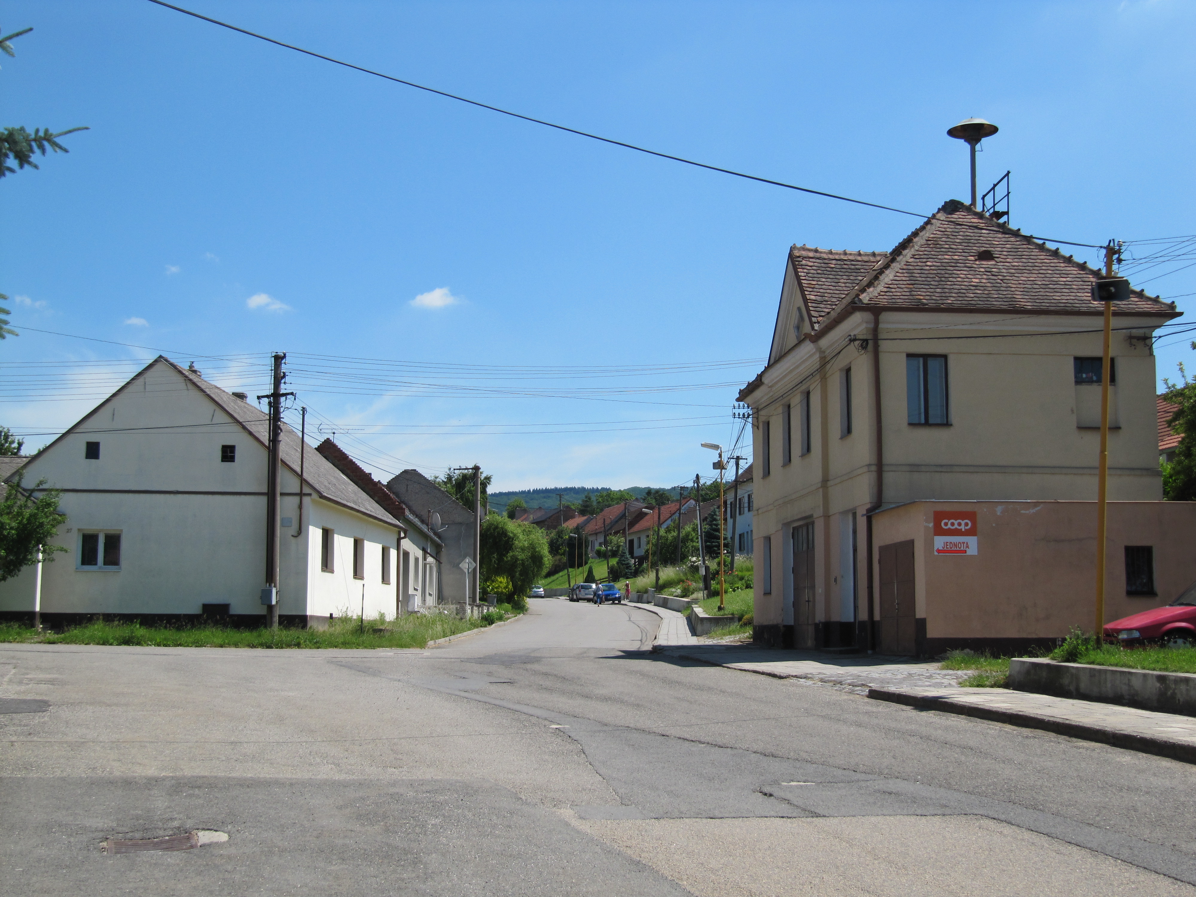 Bystřice pod Lopeníkem in Uherské Hradiště District, Czech Republic. Centrum obce.